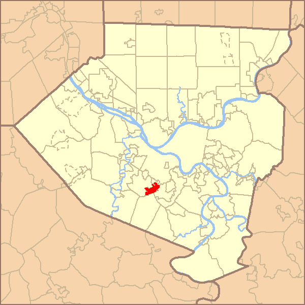 Map highlighting the municipality within Allegheny County, Pennsylvania.